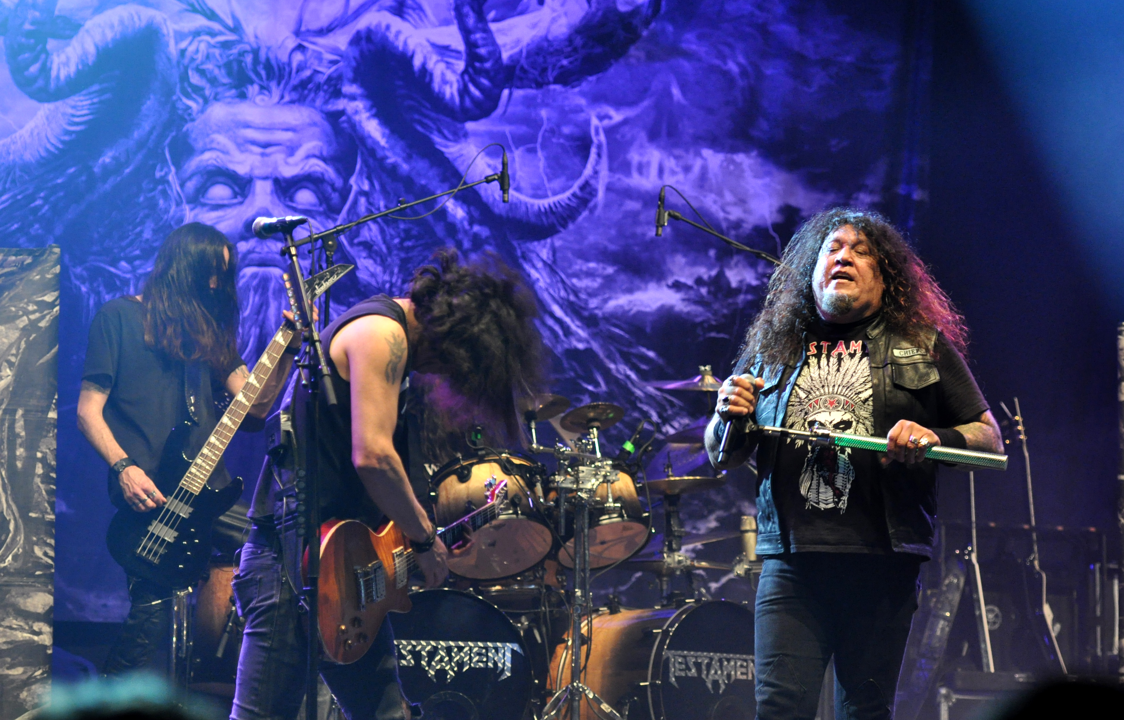 Testament at Paspop 2013, Schijndel, NL